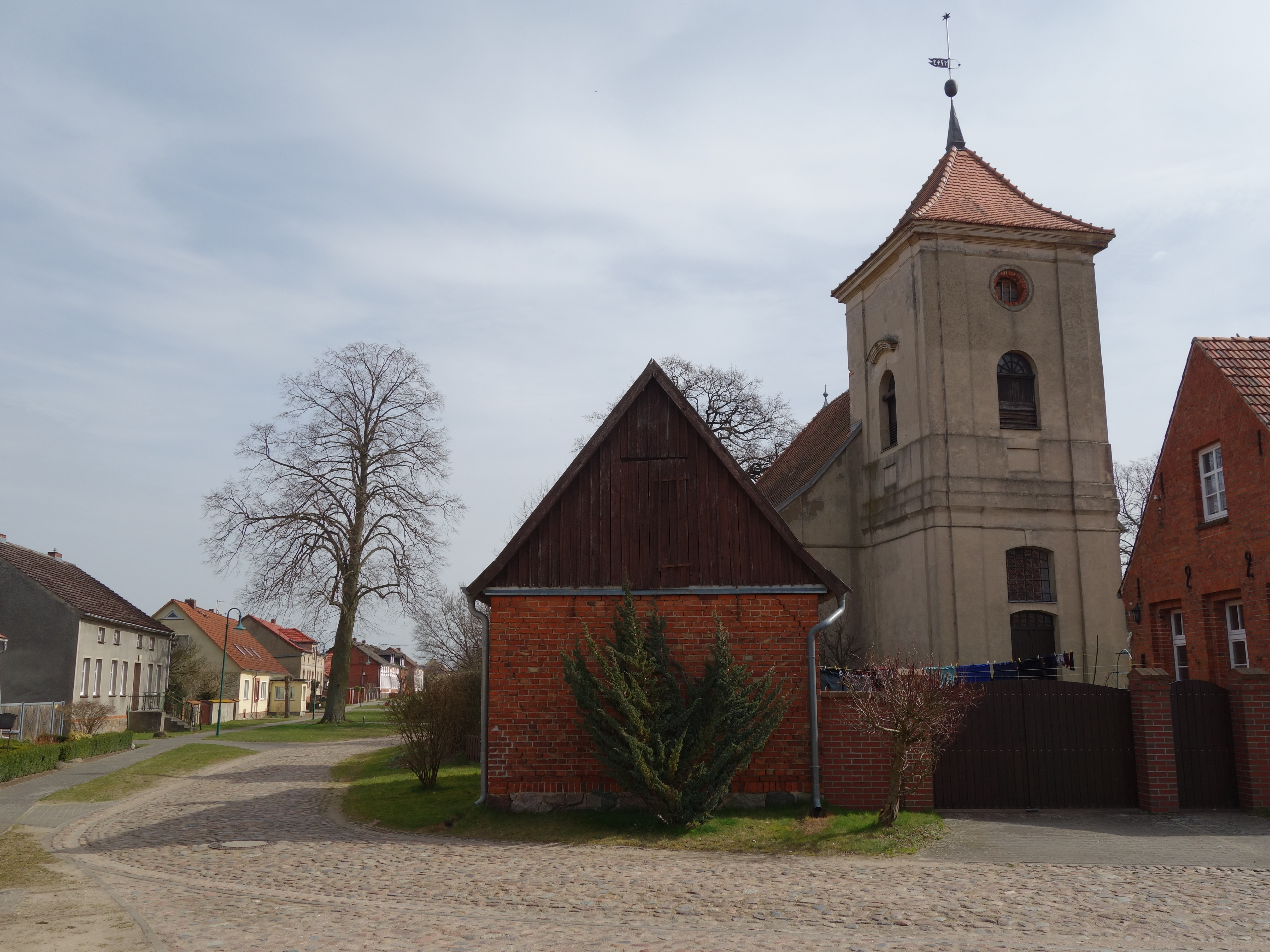 North-western view of church in Babitz , Wittstock municipality, Ostprignitz-Ruppin district, Brandenburg state, Germany, and the lime-tree planted 1910 in commemoration of the Prussian Queen Louise